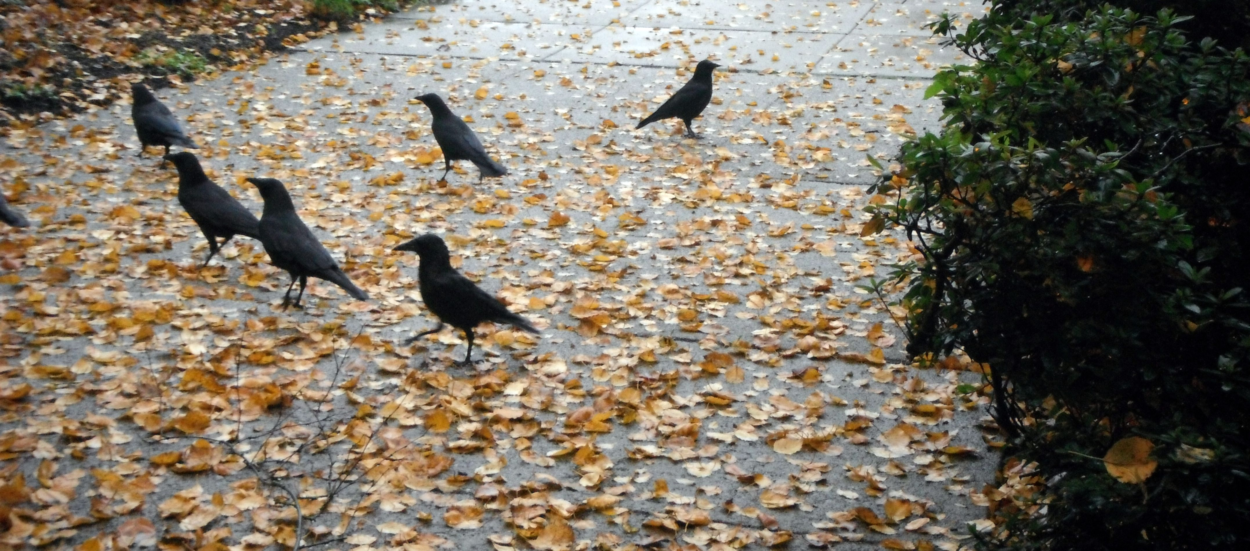 Northwestern Crow Corvus caurinus, autumn flock.